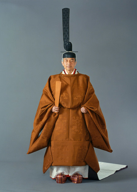 Emperor Akihito wore the sokutai at the Ceremony of the Enthronement on November, 1990.